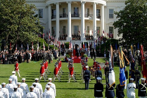 State Arrival Ceremony for the Former President of the Philippines, on the White House South Lawn